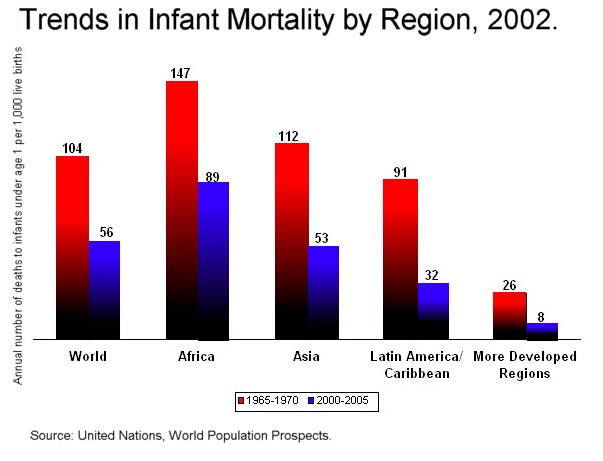 This is a chart depicting infant mortality by region of the world.